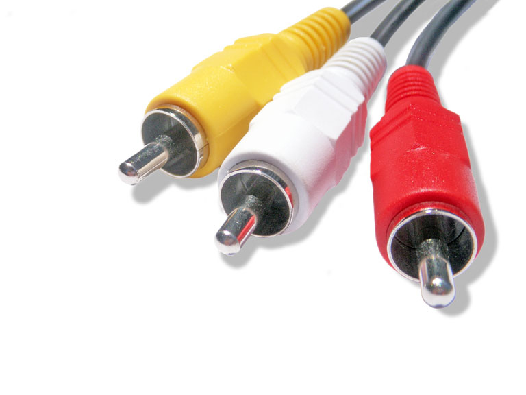 A photograph of 3 RCA plugs. The colors red and white are used for the right and left stereo audio signals, while yellow is used to transmit composite video signals.